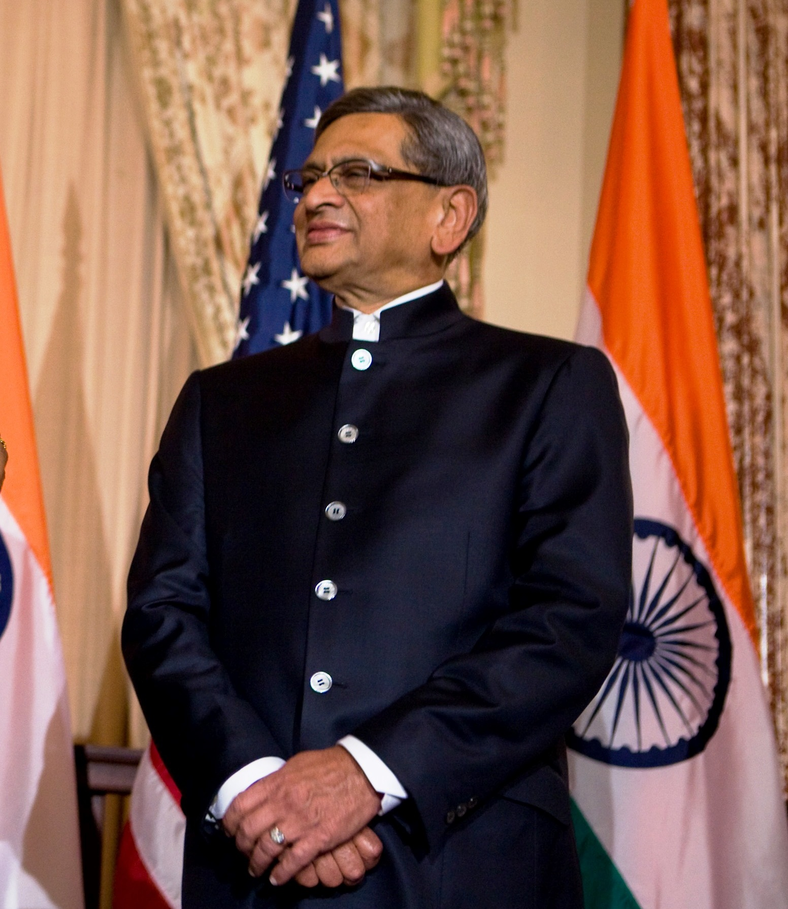 U.S. President Barack Obama delivers remarks with U.S. Secretary of State Hillary Rodham Clinton (left) and Indian Minister of External Affairs S.M. Krishna (right) at the U.S.-India Strategic Dialogue reception at the U.S. Department of State in Washington, D.C., on June 3, 2010. [White House photo/ Public Domain]